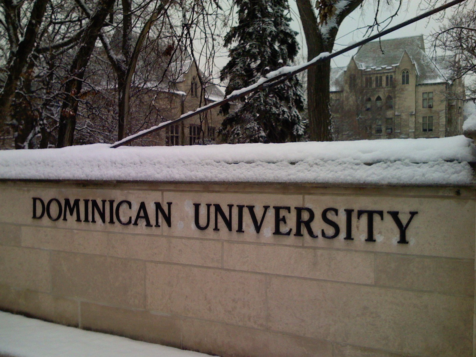 Division Street Entrance of Dominican University